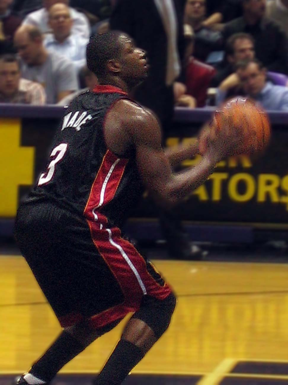 Dwayne Wade shooting a free throw for the Miami Heat against the Milwaukee Bucks, December 14 2005.